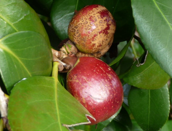 Camellia, fruit